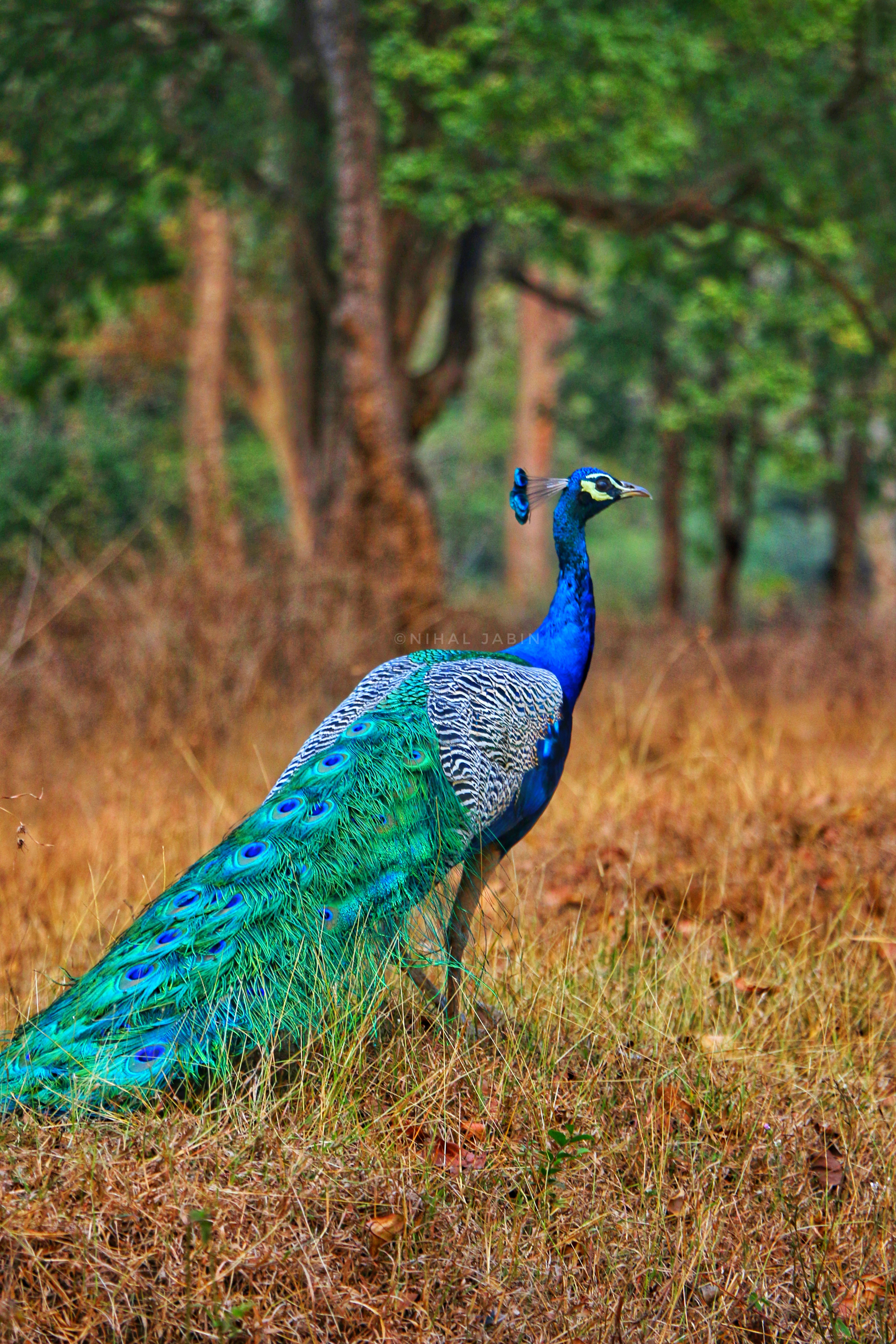 The Royal beauty of the jungle